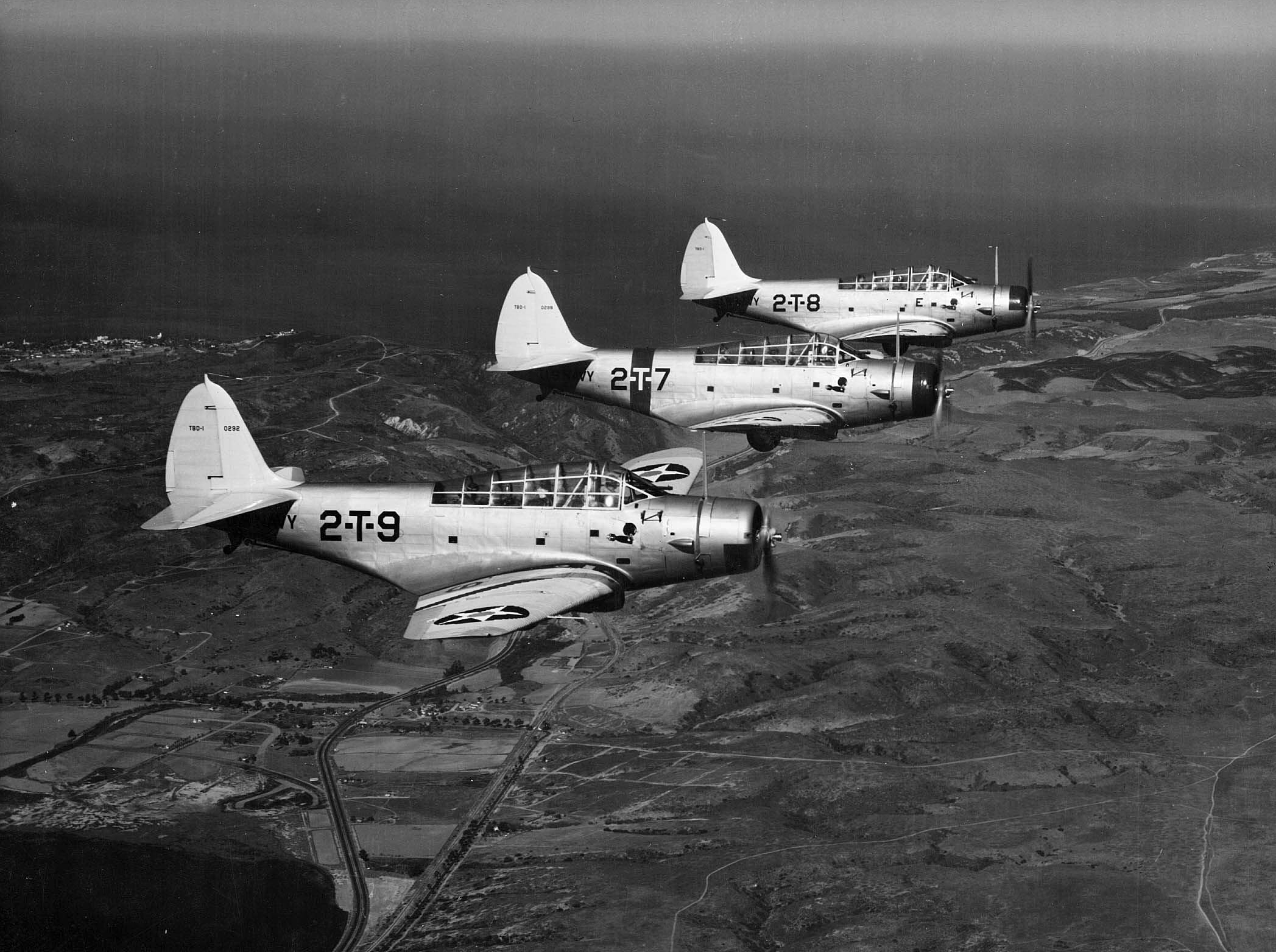 Three U.S. Navy Douglas TBD-1 Devastators of Torpedo Squadron 2 (VT-2) pictured in formation. Note the squadron insignia, a Bombman astride a torpedo, on the fuselage beneath the cockpit. The three TBDs had much different careers: TBD-1, BuNo 0292, was delivered to VT-2 as "2-T-9". The aircraft was lost on 12 January 1940 with VT-3 in a mid-air collision with TBD-1 BuNo 0373. The crew (Ens. Walter G. Barnes, Jr. P. E. Dickson, AMM2 C. W. Post, RM2) bailed out safely. TBD-1, BuNo 0292, was delivered to VT-2 as "2-T-7" (section leader). It was later lost with VT-5 (as "5-T-7") when it crash-landed in the Jaluit Atoll lagoon, Marshall Islands, on 1 February 1942. The crew (Lt. Harlan T. Johnson (XO VT-5), Charles E. Fosha, ACMM, NAP, James W. Dalzell, RM1c) became prisoners of war. This aircraft was rediscovered, circa 1997 (location: N 5 58' 39" E 169 27' 6"). TBD-1, BuNo 0293, was delivered to VT-2 as "2-T-8". It was later lost with VT-8 (as "T-6") during the Battle of Midway on 4 June 1942. The crew (Ens. William W. Creamer, Francis S. Polston, SEA2c) was killed.